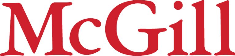 McGill Redmen wordmark